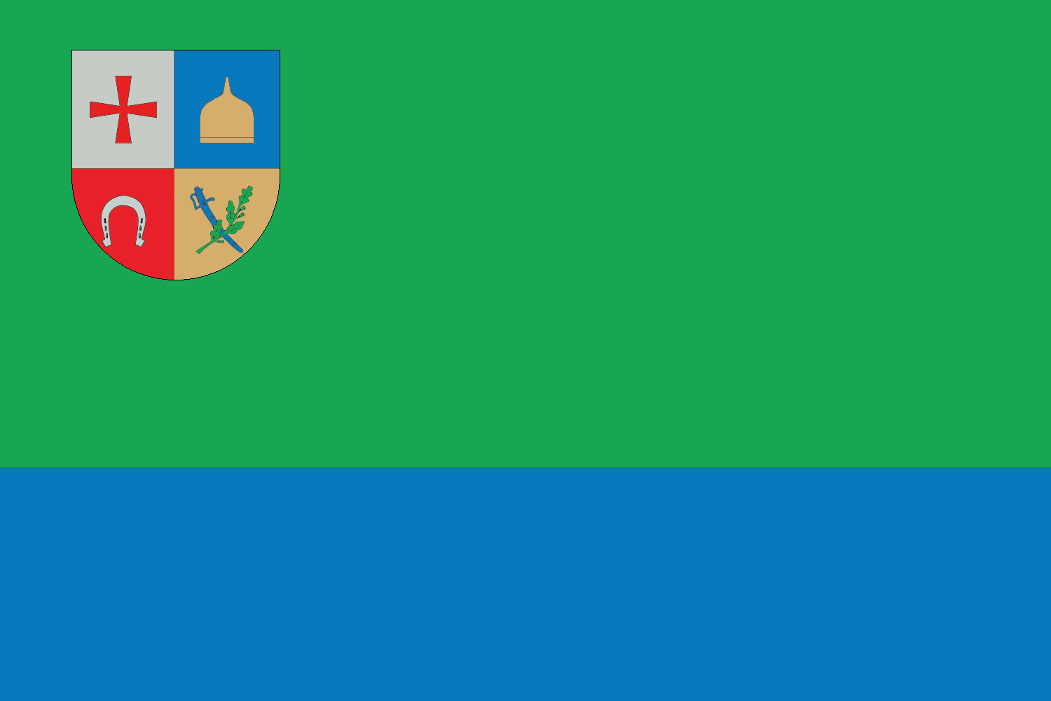 Flag of Ripkinskiy raion in Chernihiv Oblast